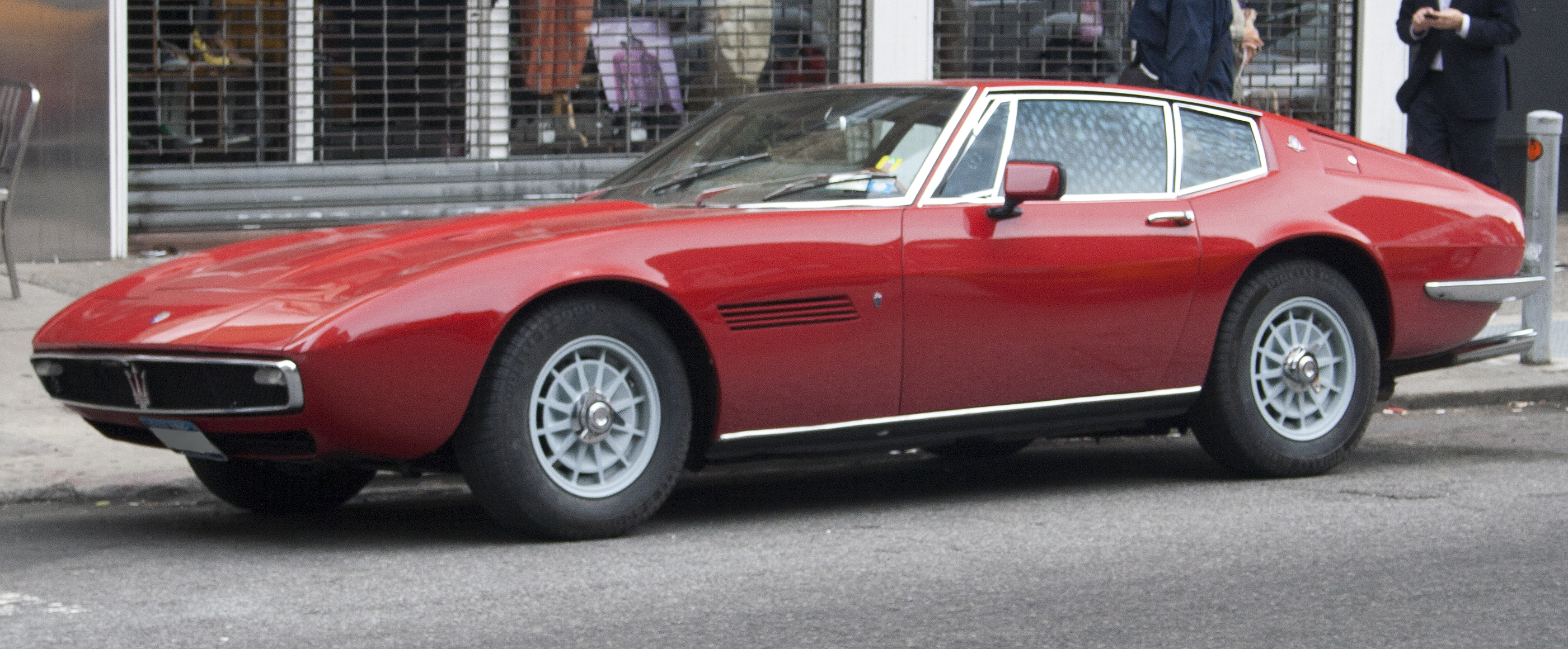 1967 Maserati Ghibli, belonging to the very dedicated Olivier Renaud-Clément.